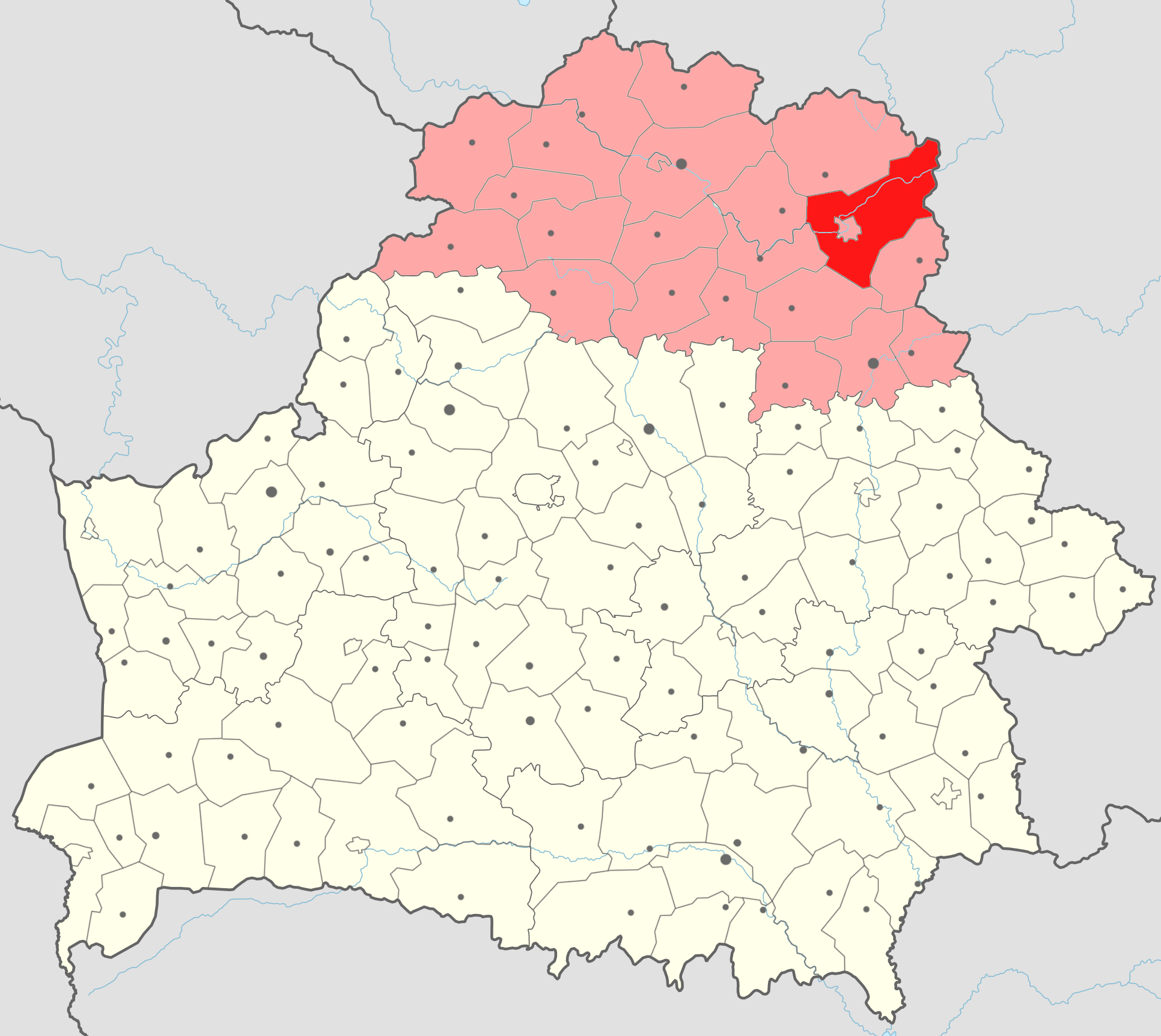 Map of Viciebski raion (in red) with Viciebskaja voblast' (in light red) on the map of Belarus.